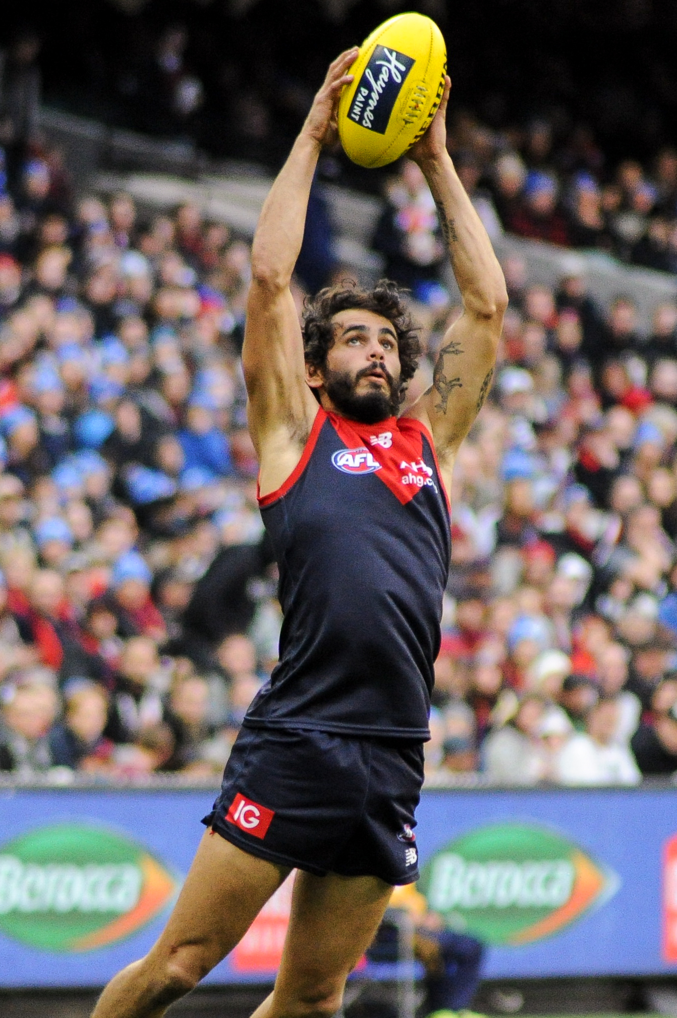 Jeff Garlett marking during the AFL round twelve match between Melbourne and Collingwood on 12 June 2017 at the Melbourne Cricket Ground in Melbourne, Victoria.